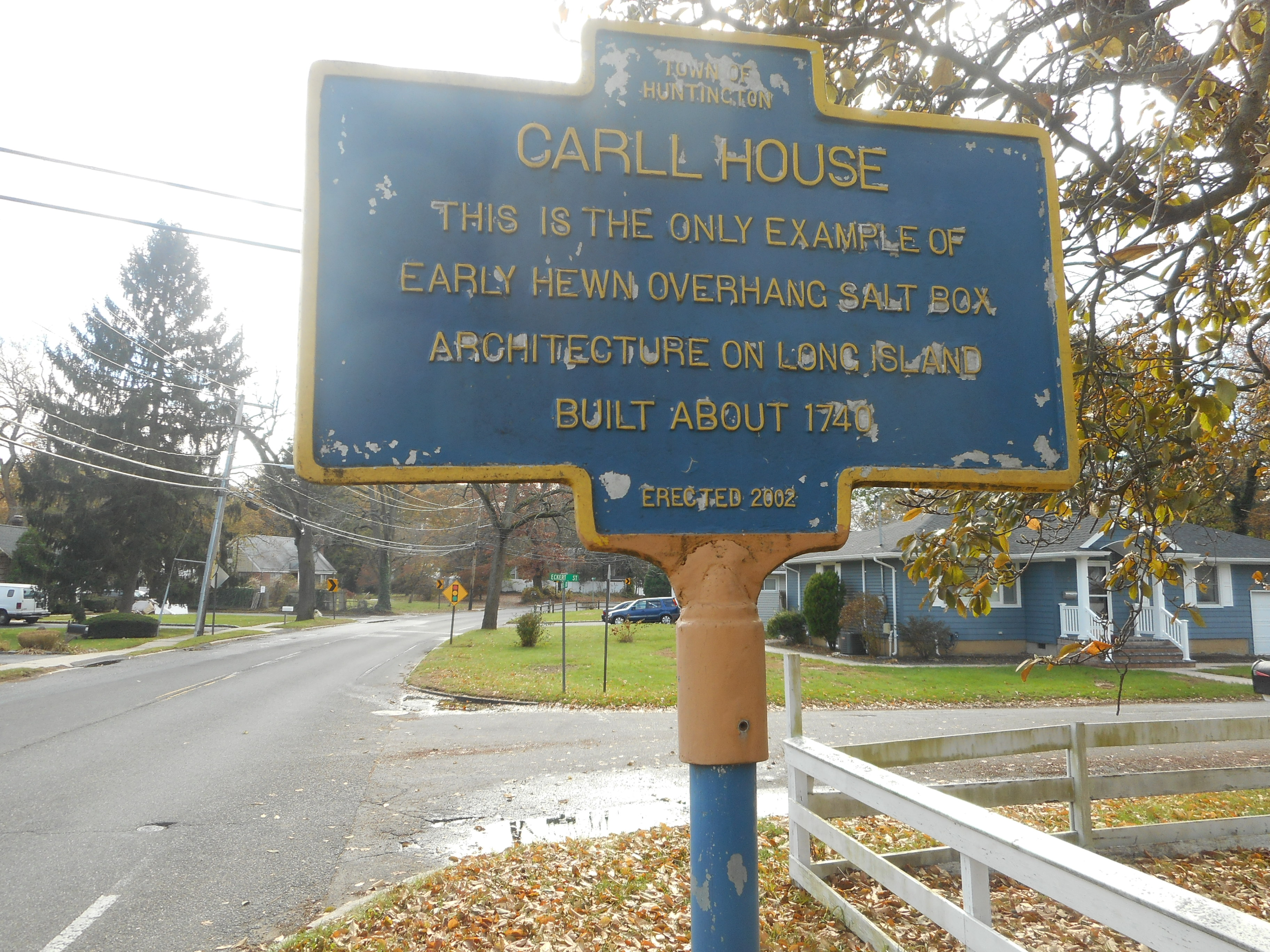 A historical marker for the NRHP-listed Ezra Carll Homestead on 49 Melville Road at the northwest corner of Eckert Street in South Huntington, New York. This was the second attempt to capture the historical marker, because the more direct view was somewhat obstructed by afternoon sun glare.